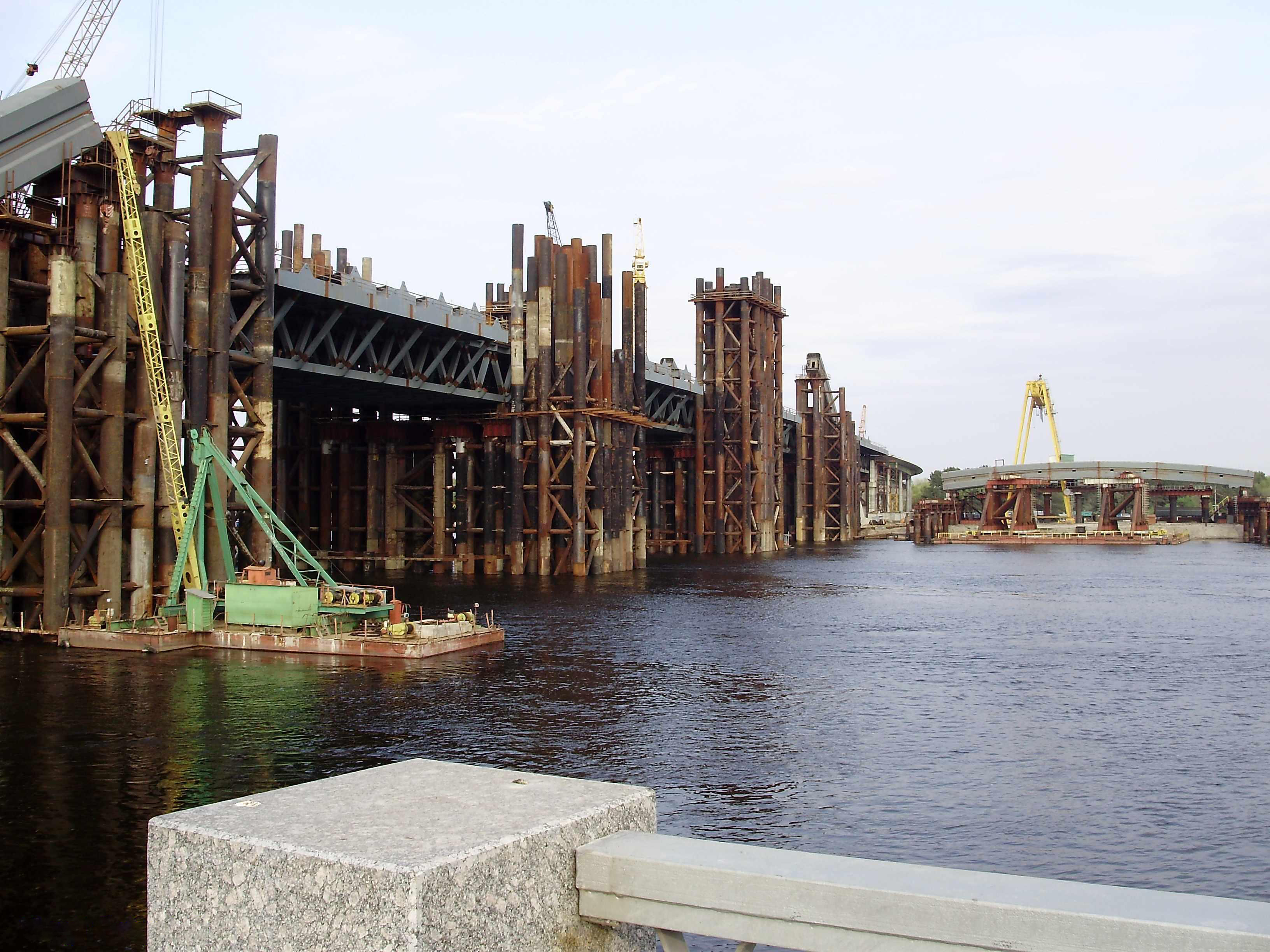 Podil-Voskresens`ky bridge. Ukraine, Kyiv